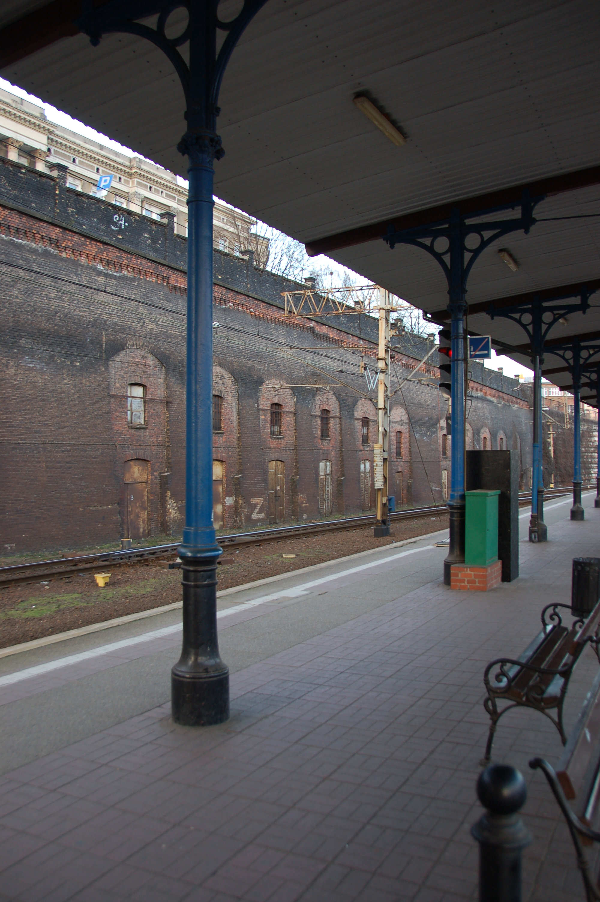 Stettin central train station This file is used in a Wikiversity project or course. Please don't change it before you inform the author.